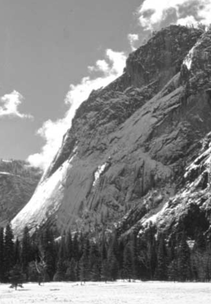 Glacier Point apron, Yosemite National Park, California, United States